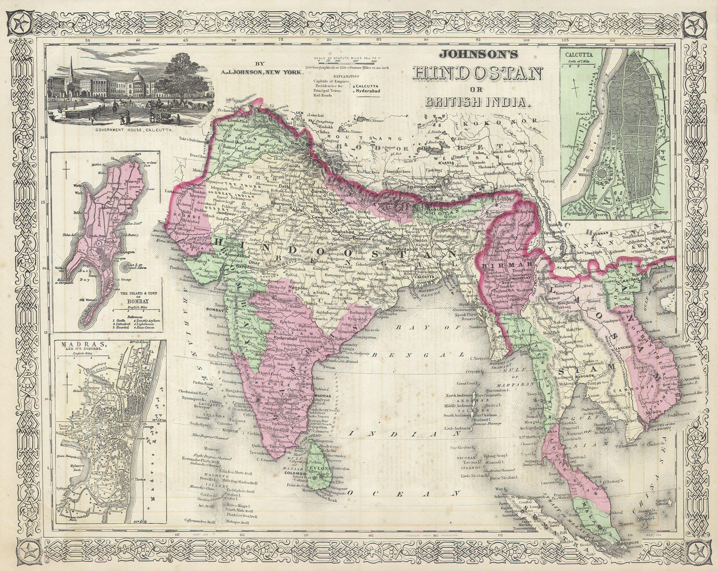 A very nice example of A. J. Johnson’s 1864 map of India and Southeast Asia. Covers from the Indus River eastward to include all of India, Burma, Siam (Thailand), Laos, Cambodia, Malaysia (Malacca) and Vietnam (Tonquin and Chochin). Also includes parts of Pakistan, Nepal, China, Bhutan, Sumatra and Ceylon (Sri Lanka). Offers color coding according to country and region as well as notations regarding roadways, cities, towns, and river systems. Three inset maps focus on the Island of Bombay (Mumbai), Madras, and Calcutta. An view of the Government House and Treasury in Calcutta adorns the upper left corner. Features the fretwork style border common to Johnson’s atlas work from 1864 to 1869. Published by A. J. Johnson and Ward as plate number 95 in the 1864 edition of Johnson’s New Illustrated Family Atlas. This is the last edition of the Johnson Atlas to bear the Johnson and Ward imprint, subsequent editions were attributed to Johnson exclusively.